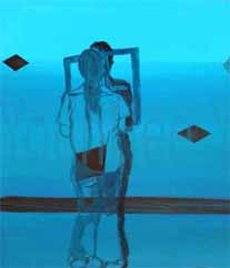 Detail of the painting "Mirror" from the series 'Borderless - Grenzenlos I', Gouache on Canvas, 2008, by Yang YounHee